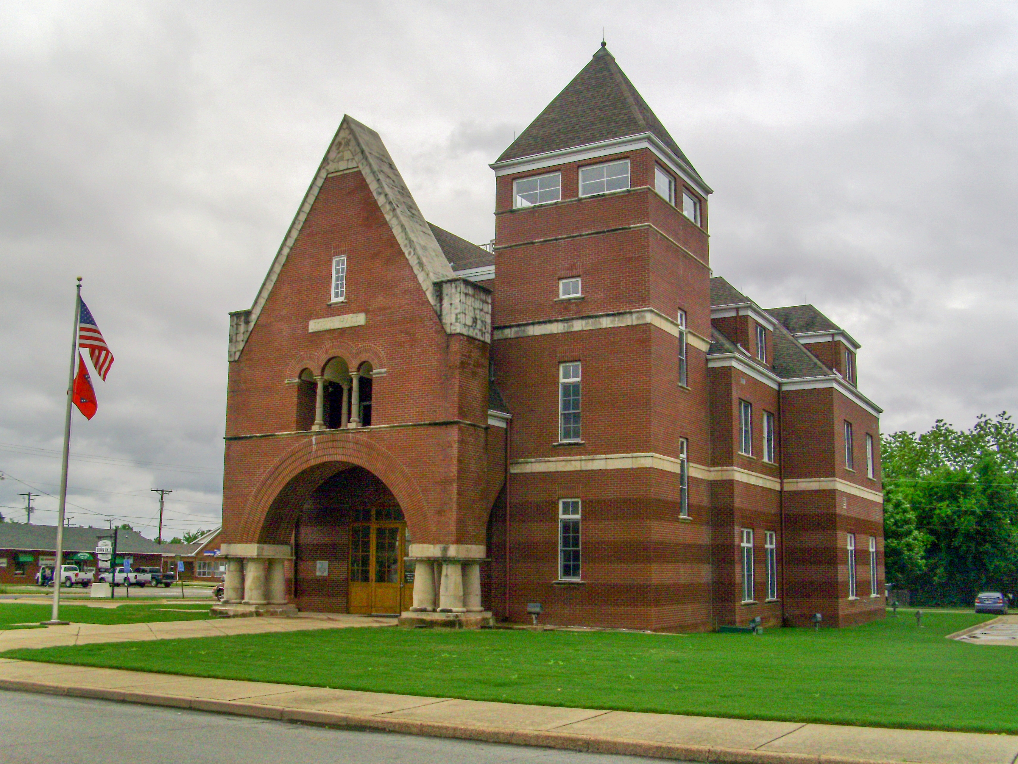 Arkadelphia City Hall